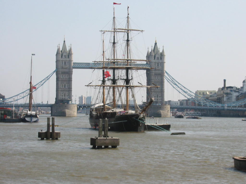 A replica of the Zong at Tower Bridge, April 2007, as part of the 200th slave abolition commemoration.